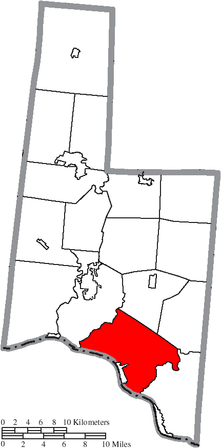 Map of the municipal and township boundaries of Brown County, Ohio, United States, as of the 2000 census, with the location of Union Township highlighted. Township borders are shown only in unincorporated areas in order to differentiate incorporated and unincorporated areas more clearly.